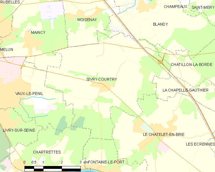 Map of French municipality Sivry-Courtry